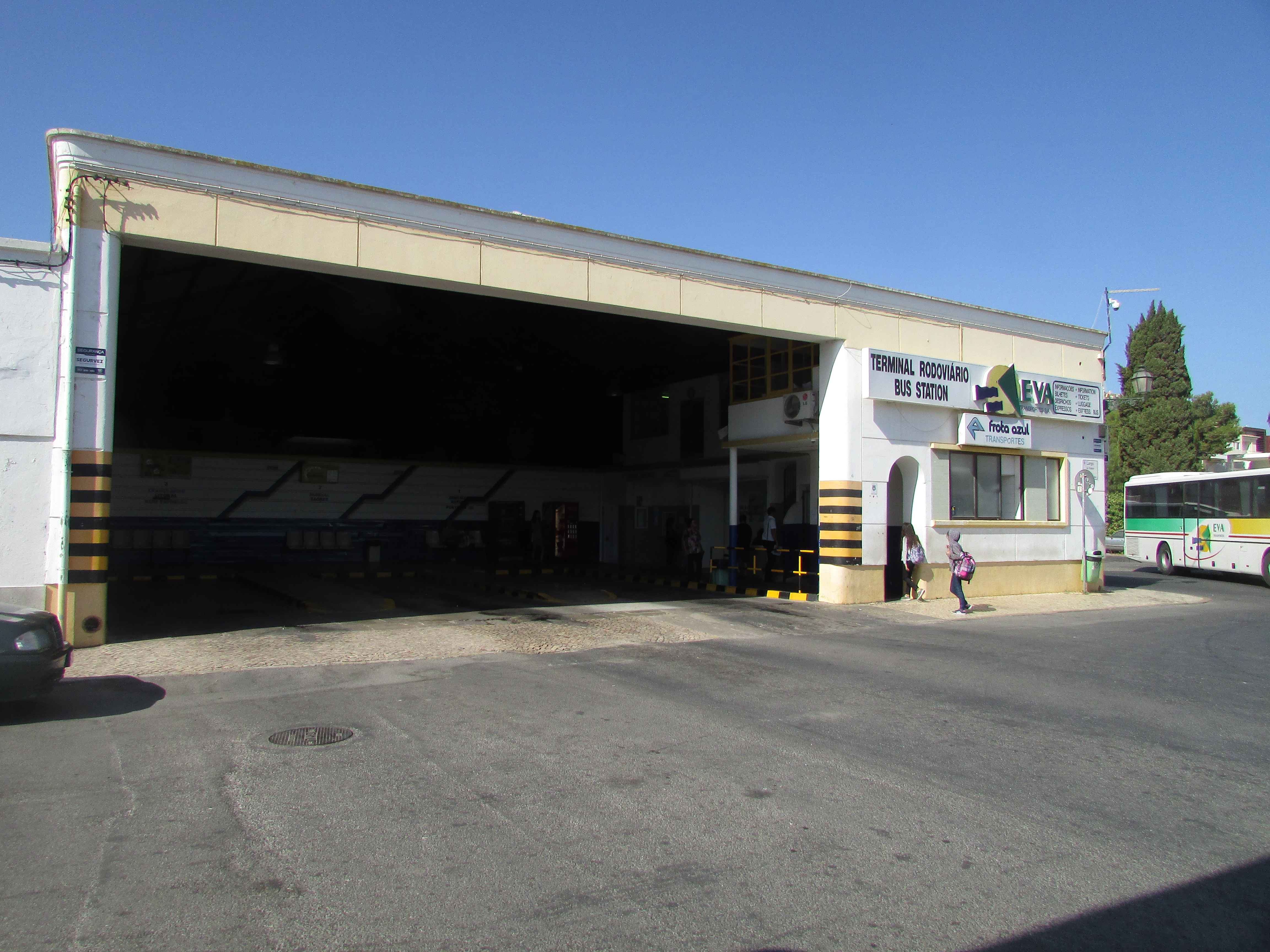 The garage of Lagos bus terminal located on Rua Mercado de Levante which is located in the city of Lagos, Algarve, Portugal.